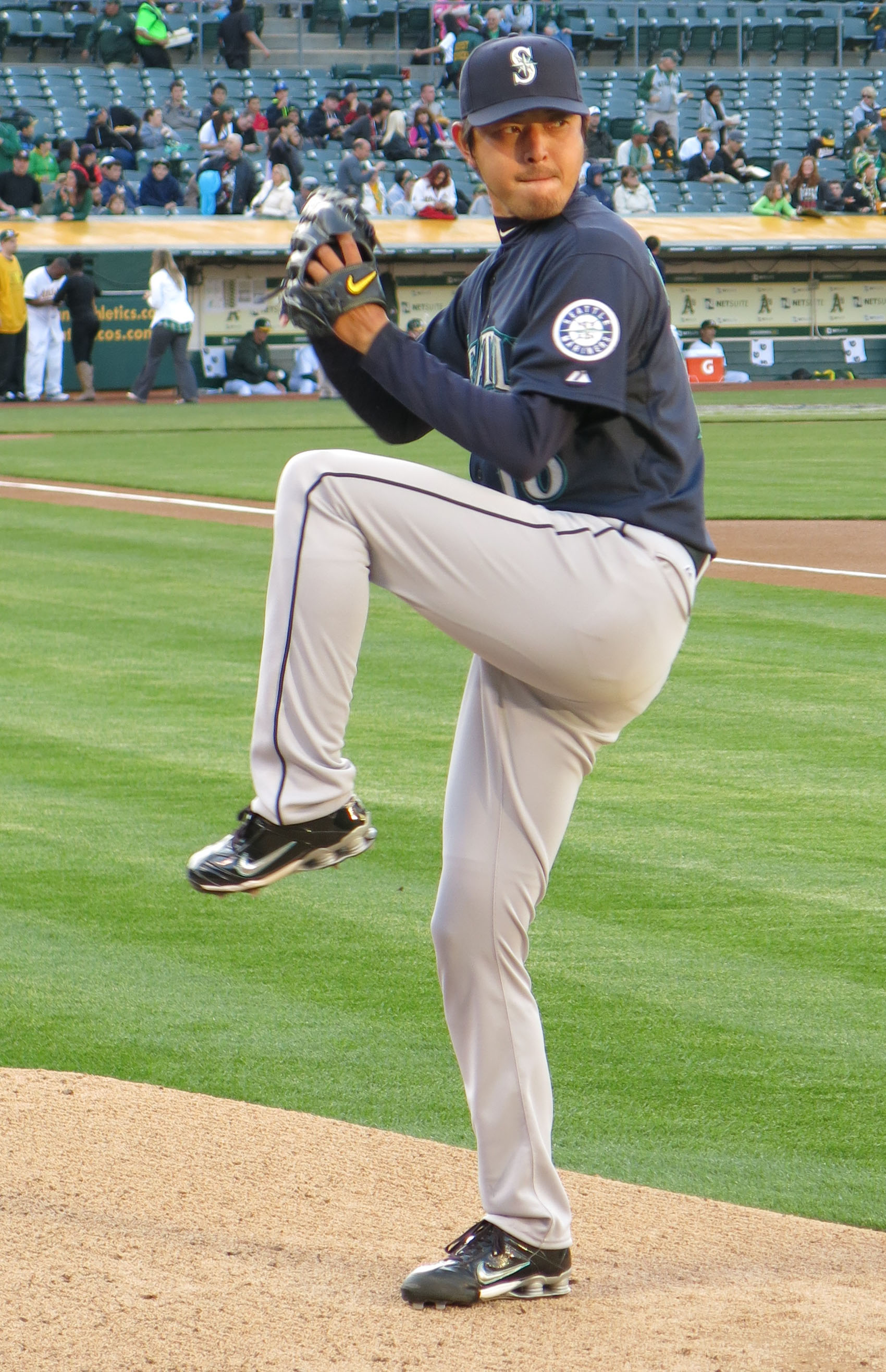 Seattle Mariners starting pitcher Hisashi Iwakuma warms up in the bullpen for a start against the Oakland Athletics in Oakland, California.